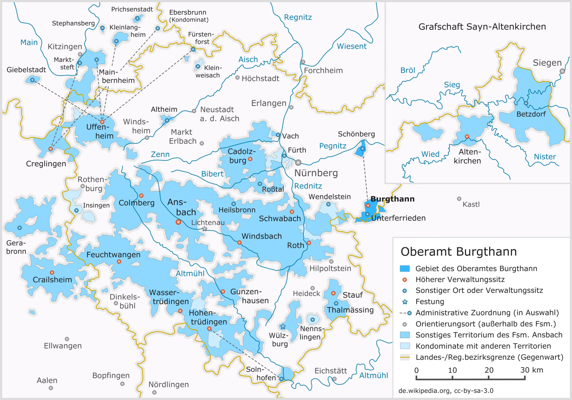 Map of the Oberamt Burgthann